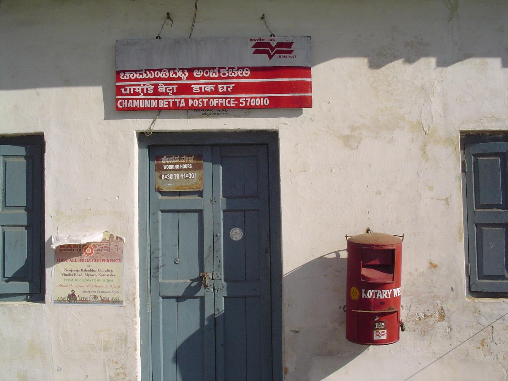 An indian post office